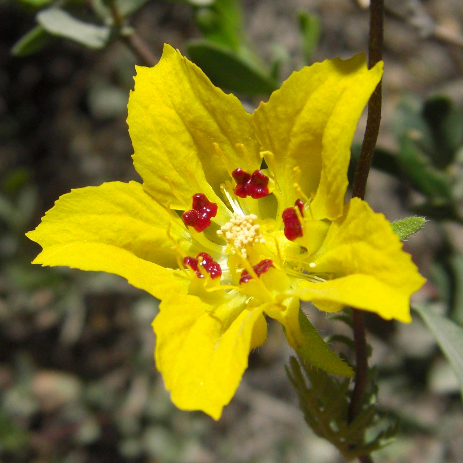 Scyphanthus stenocarpus in dry scrub in mountains east of Santiago, near San Jose del Maipo.